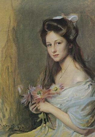 Victoria Luise Princess of Prussia, later Duchess of Brunswick